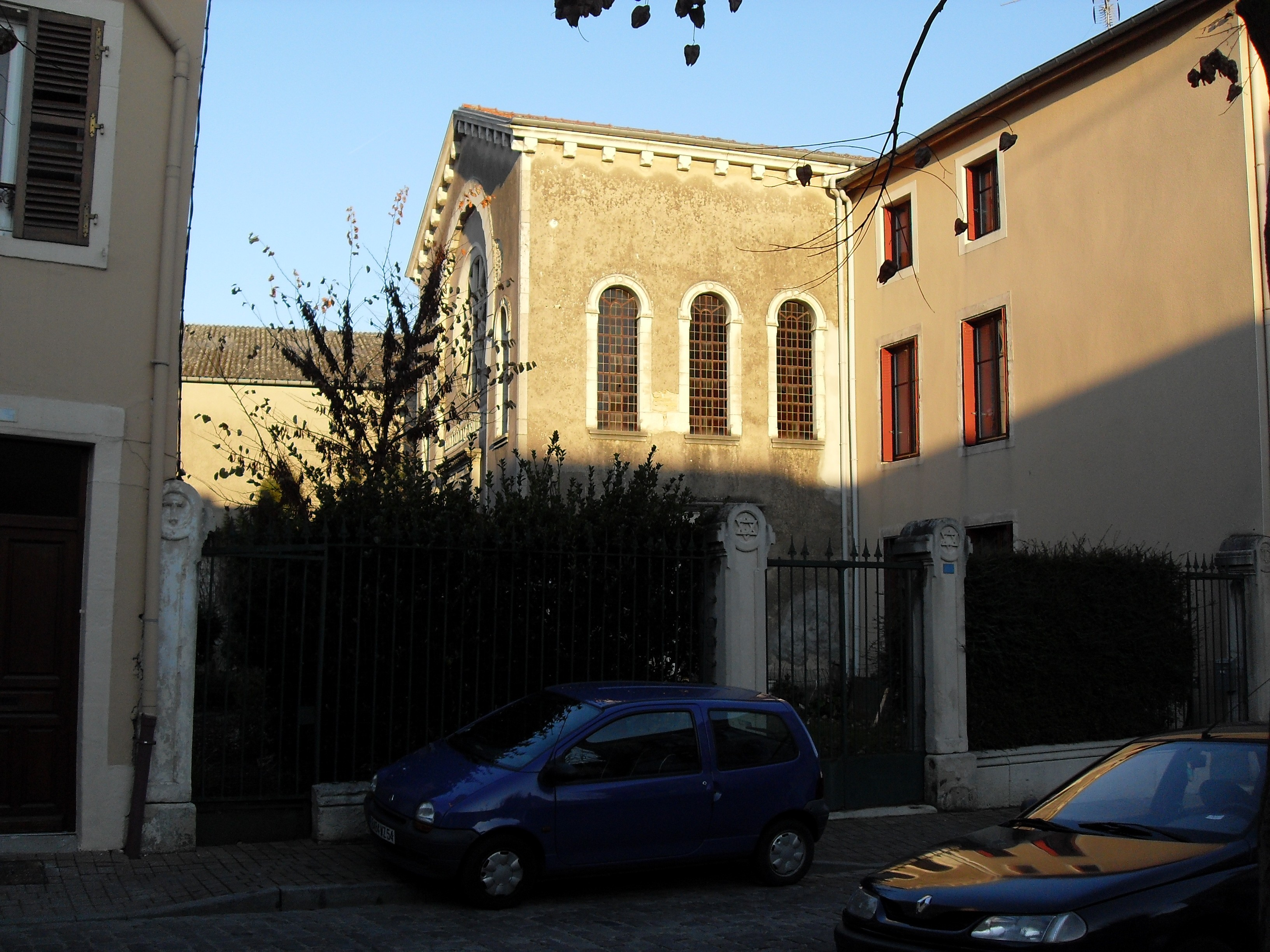 Toul Synagogue 19th century